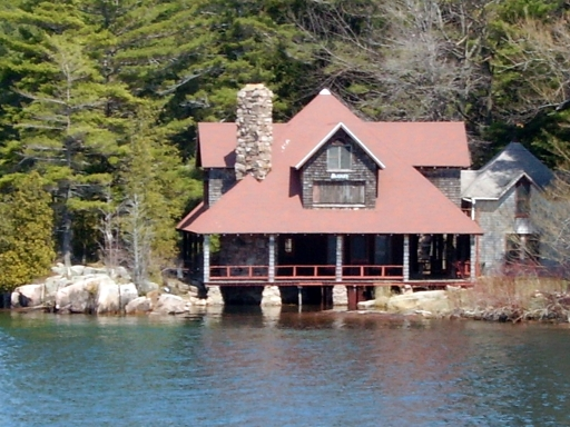 (PJ Harris, )